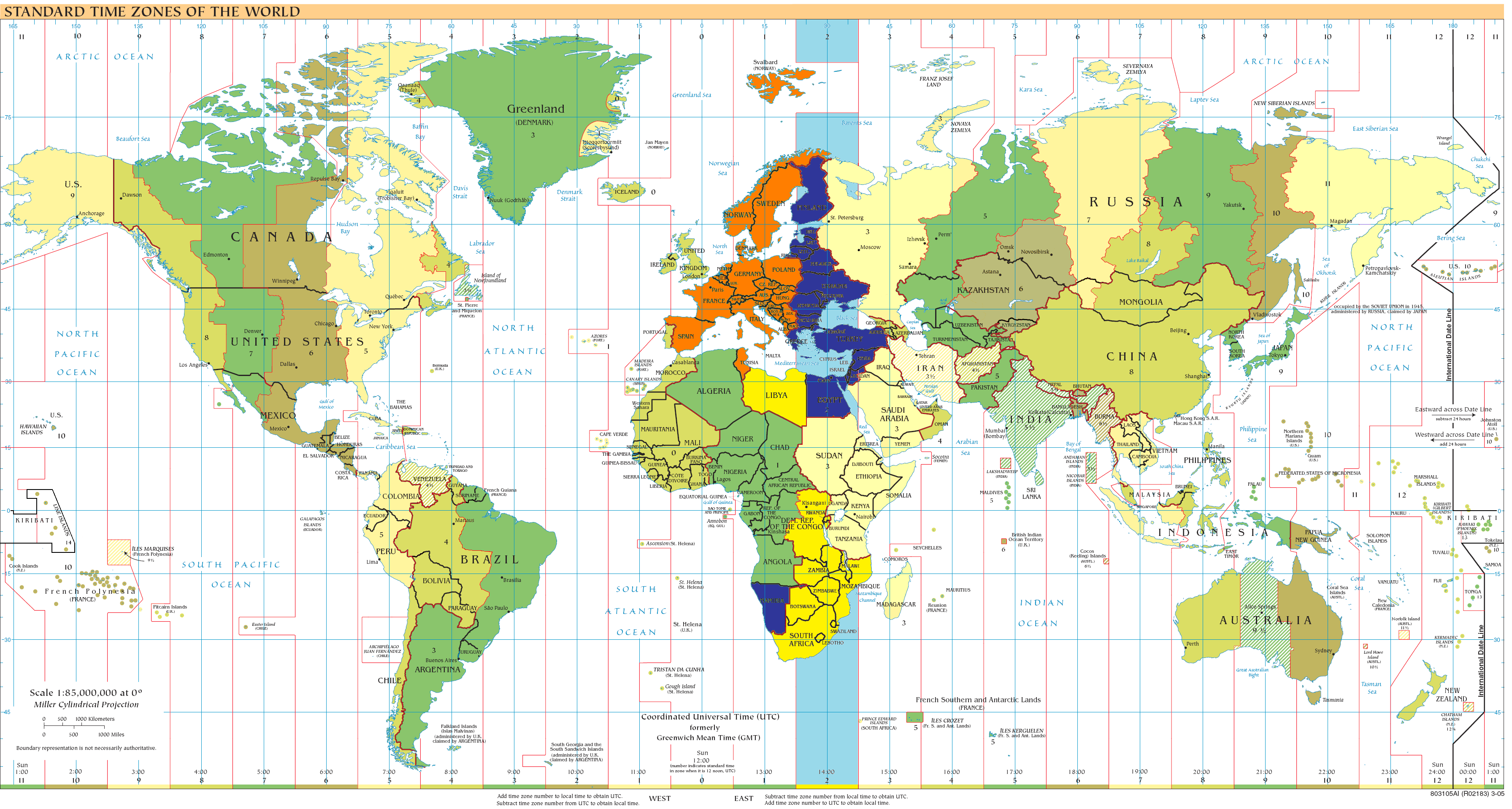 UTC+2 and process 2010 (Russia)